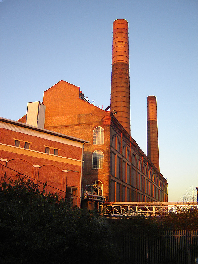 Lots Road power station, Chelsea, London. 21 January 2006. Photographer: Fin Fahey.